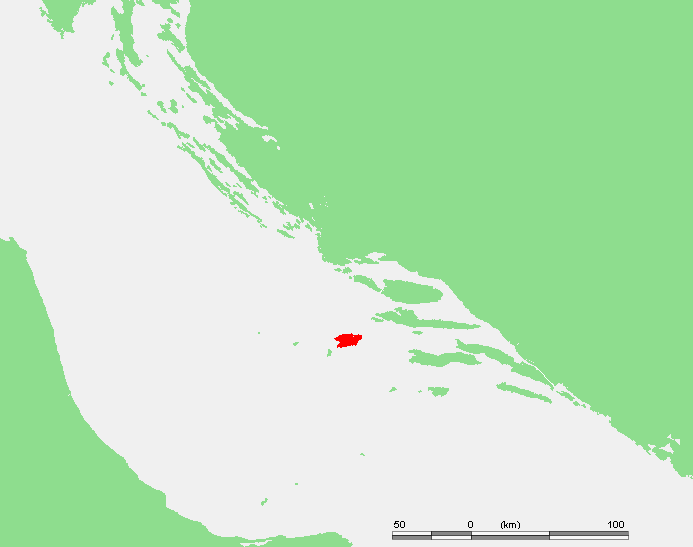 Island of Croatia - Croatia - Vis.PNG